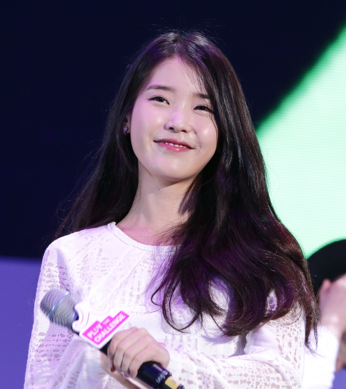 IU at Samsung Play the Challenge, 8 September 2015